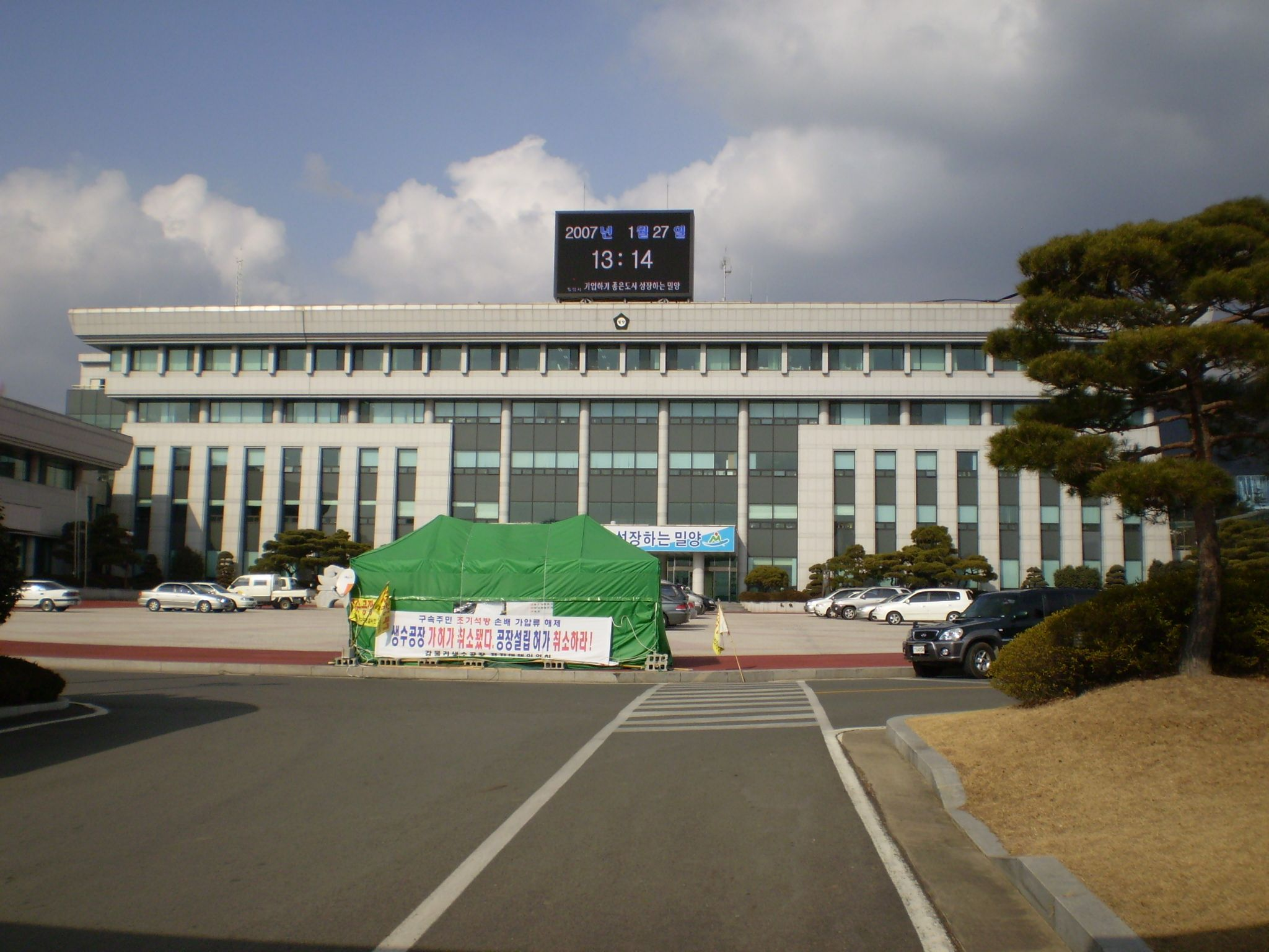 City government building (시청) in Miryang, Gyeongsangnam-do, South Korea.